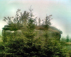 Rock on the top of Milíř in Jizera Mountains